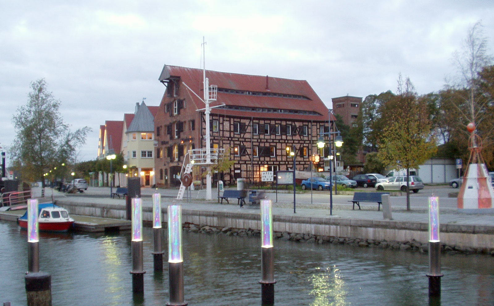 Harbour of Wolgast in the evening Camera data Olympus C-220 ISO-650 f/2,8 1/3 Sekunden